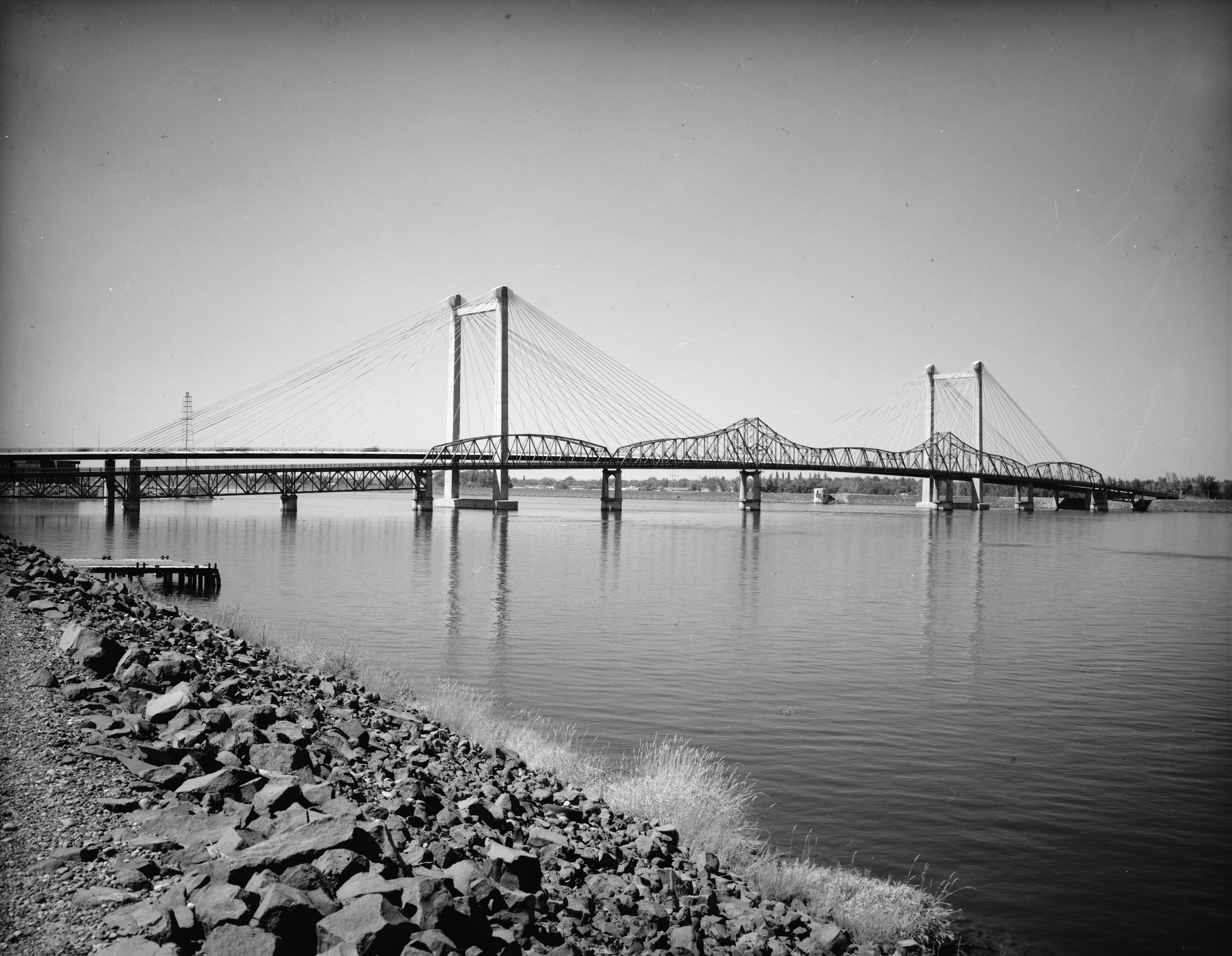 Pasco-Kennewick Bridge (1922) (foreground), and the newer Cable Bridge, Washington, USA